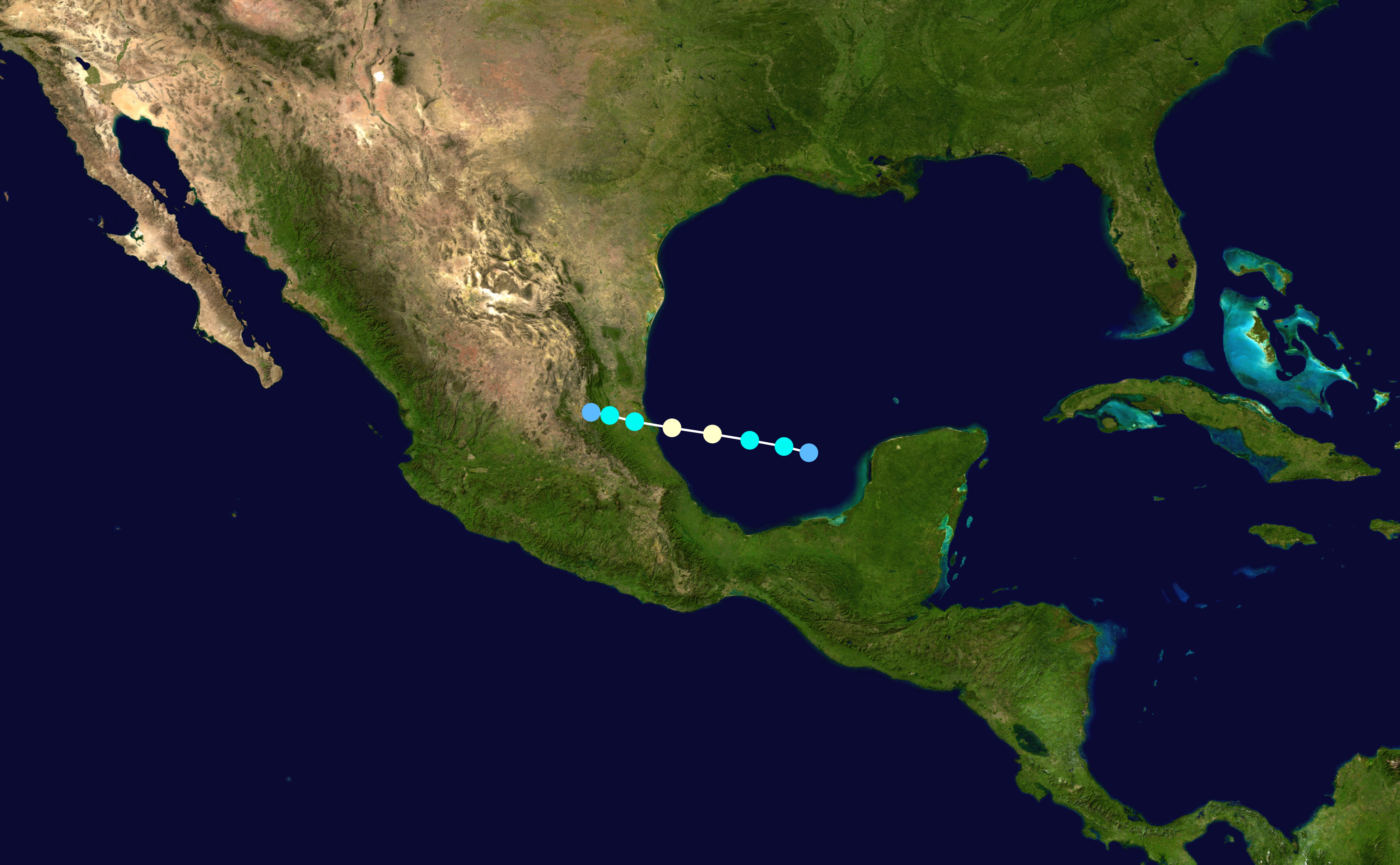 Hurricane Anna (1956) track. Uses the color scheme from the Saffir-Simpson Hurricane Scale.